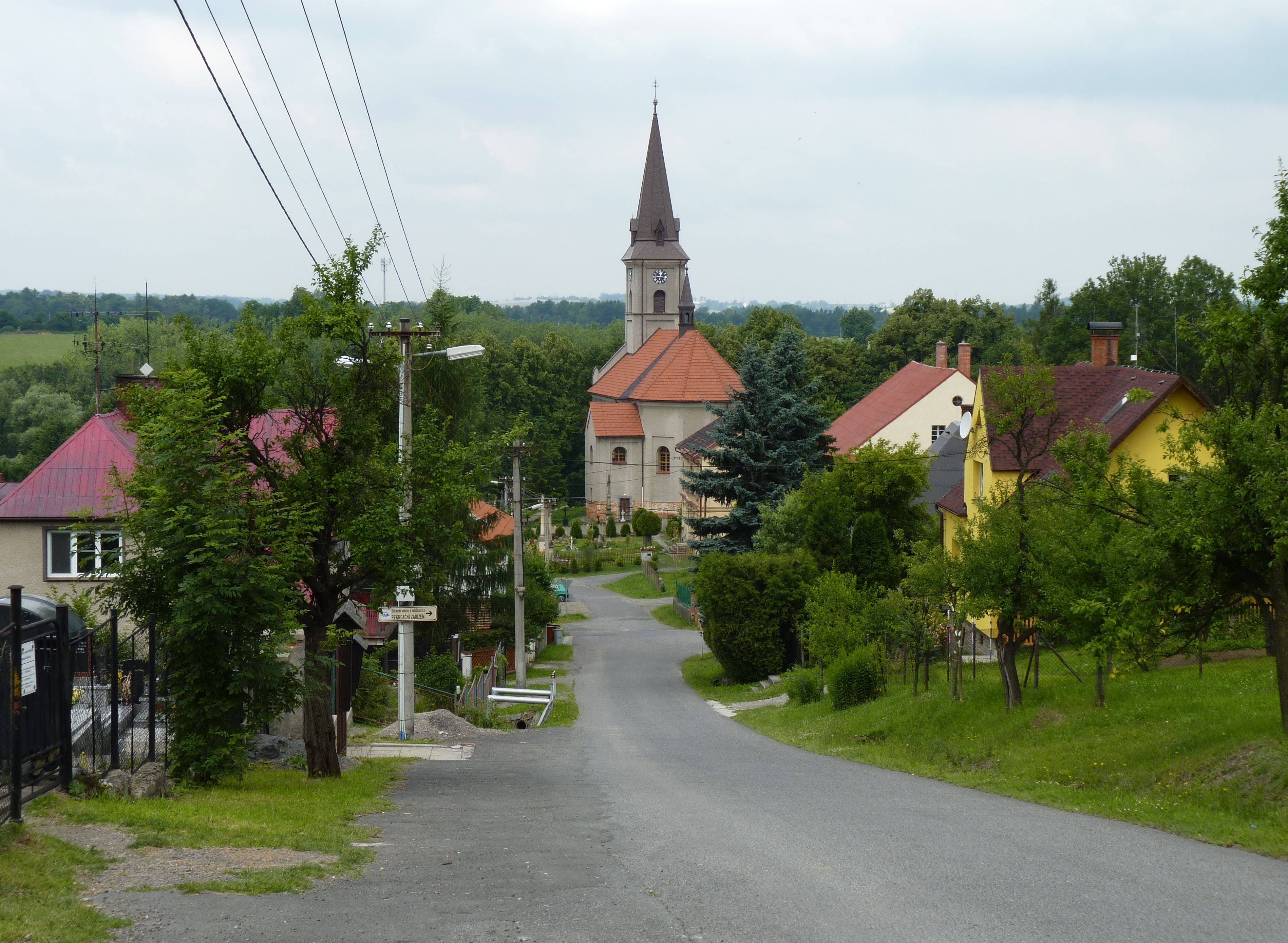 Horní Domaslavice. Frýdek-Místek District, Moravian-Silesian Region, Czech Republic